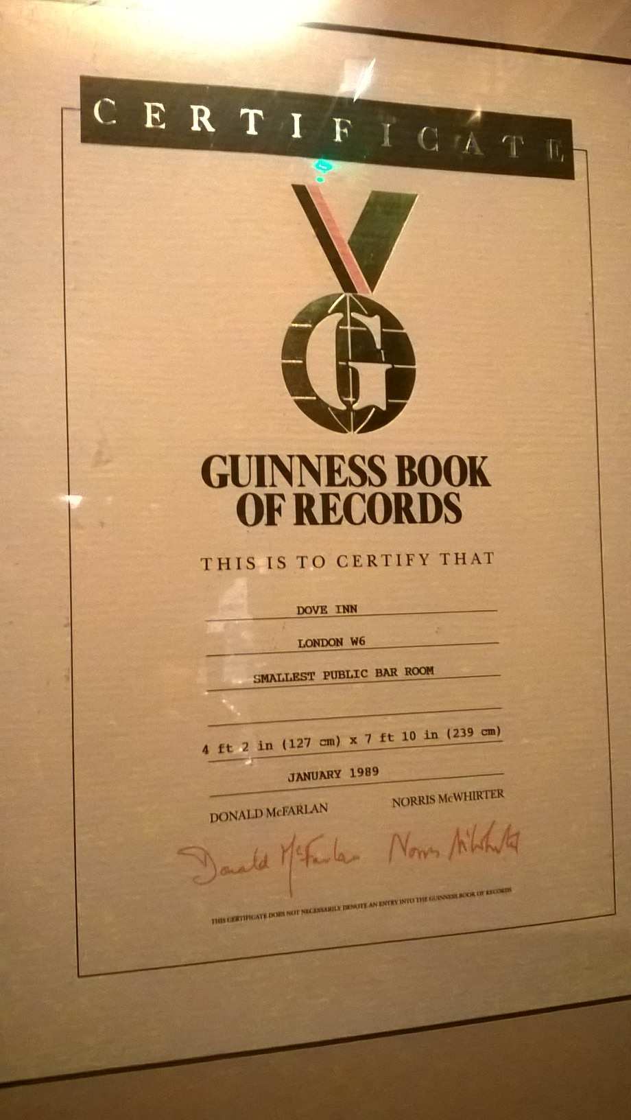 Guinness Book of Records Certificate dated 1989 at The Dove, Hammersmith confirmed it to have the world's smallest public bar room.